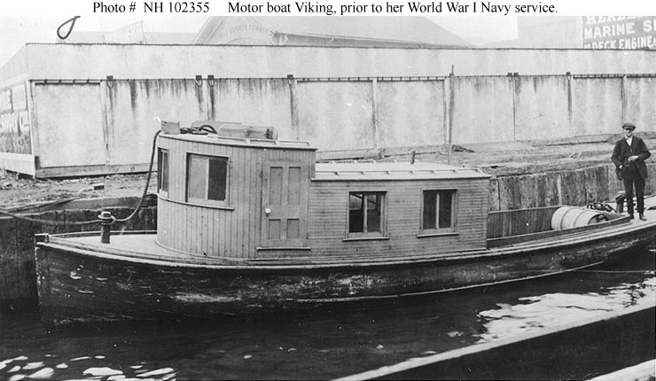 The civilian motorboat Viking, probably at Norfolk, Virginia, prior to her United States Navy service as the patrol vessel